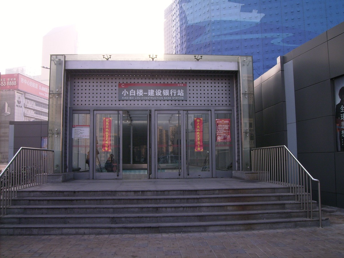 Entrance C of Xiaobailou Station, Tianjin Metro Line 1